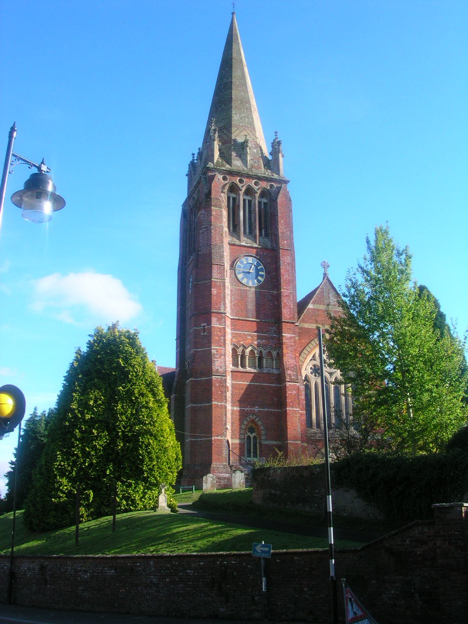 Northwest tower of St Michael and All Angels parish church, Lyndhurst, Hampshire